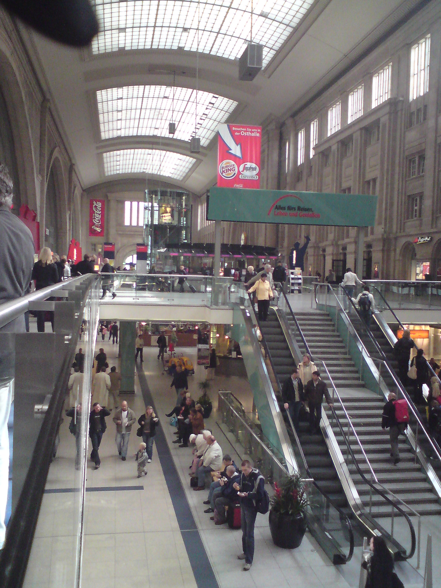 inside_main_station_leipzig